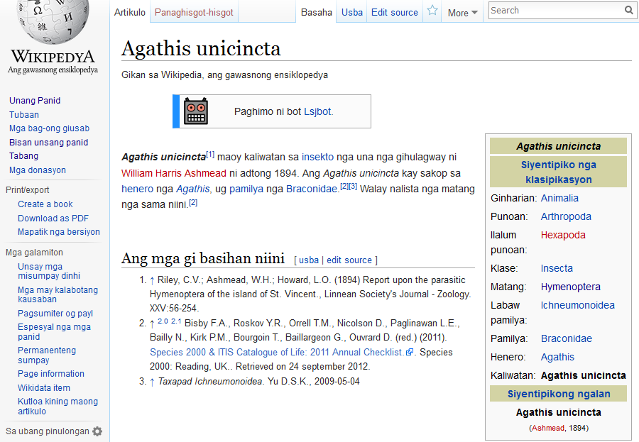 Screenshot of botgenerated Cebuano Wikipedia article agathis unicincta (